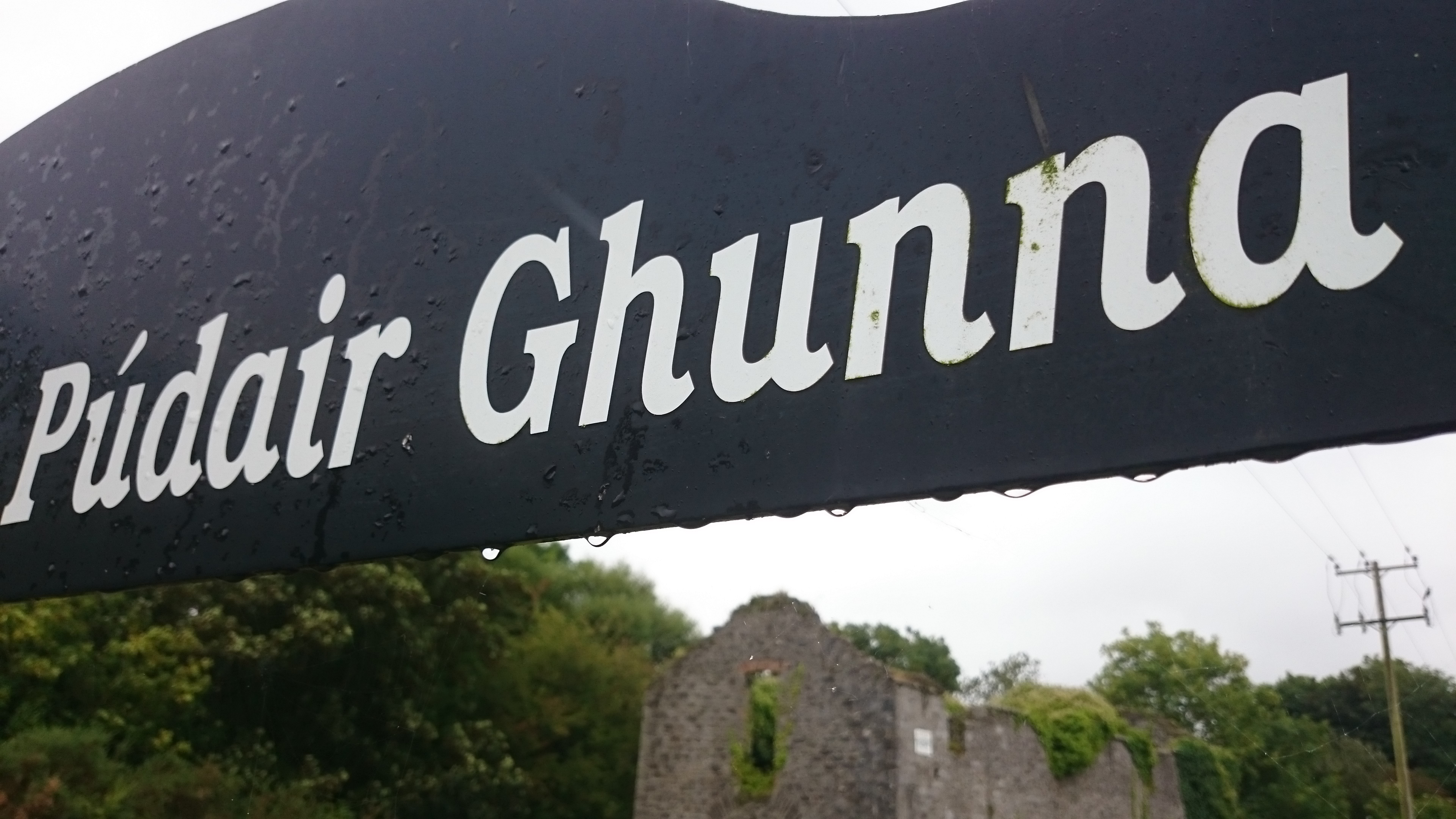 Gunpowder Mills Ballincollig